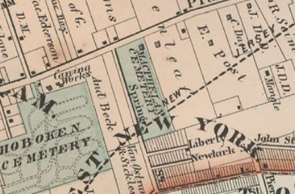 Clip from map of North Bergen showcasing Machpelah Cemetery